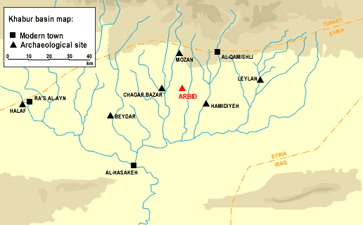 Map presenting archaeological sites in north-eastern Syria. Red triangle marks location of Tell Arbid - polish excavations